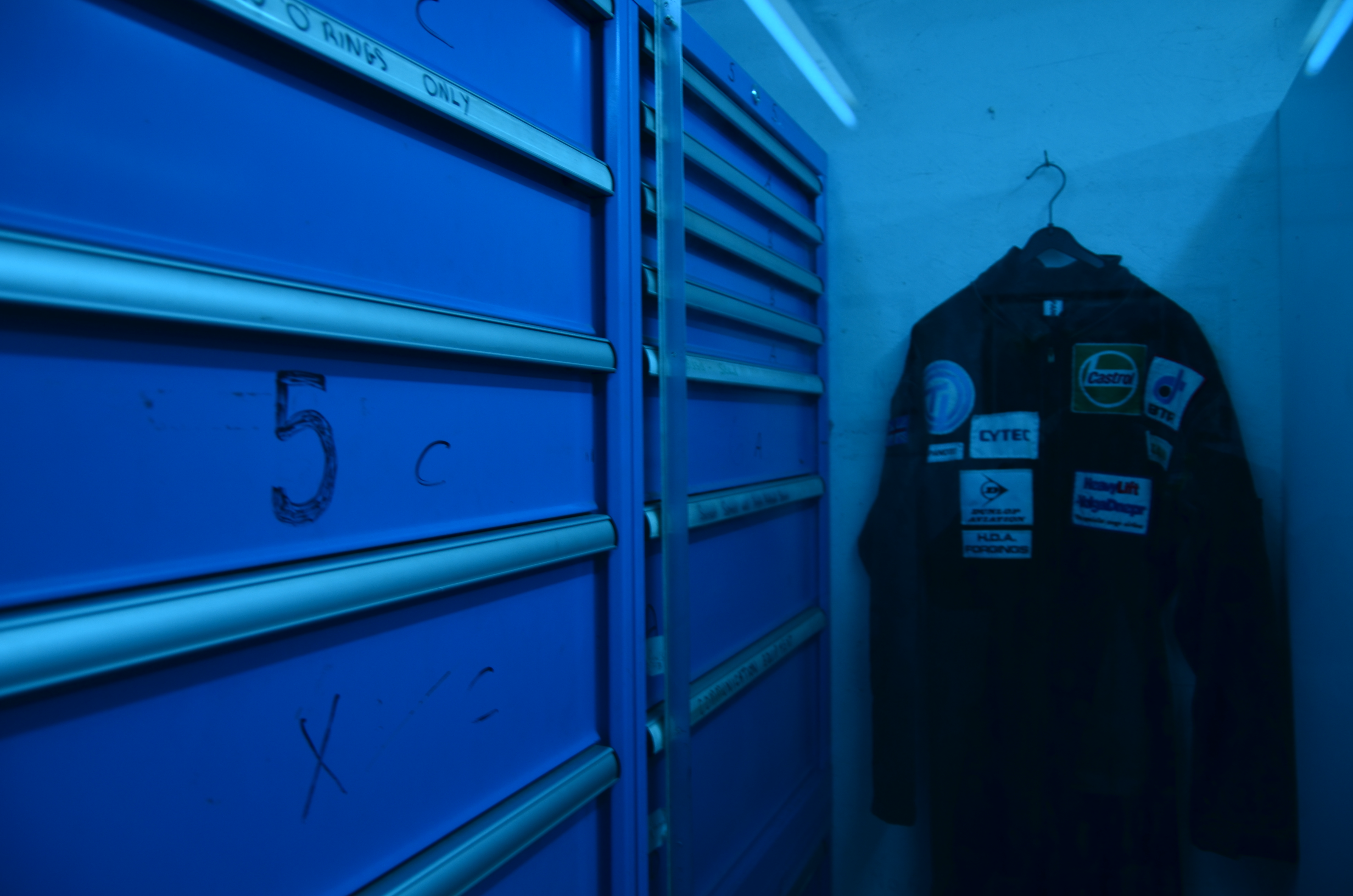 The suit of Andy Green, pilot of the Thrust SSC